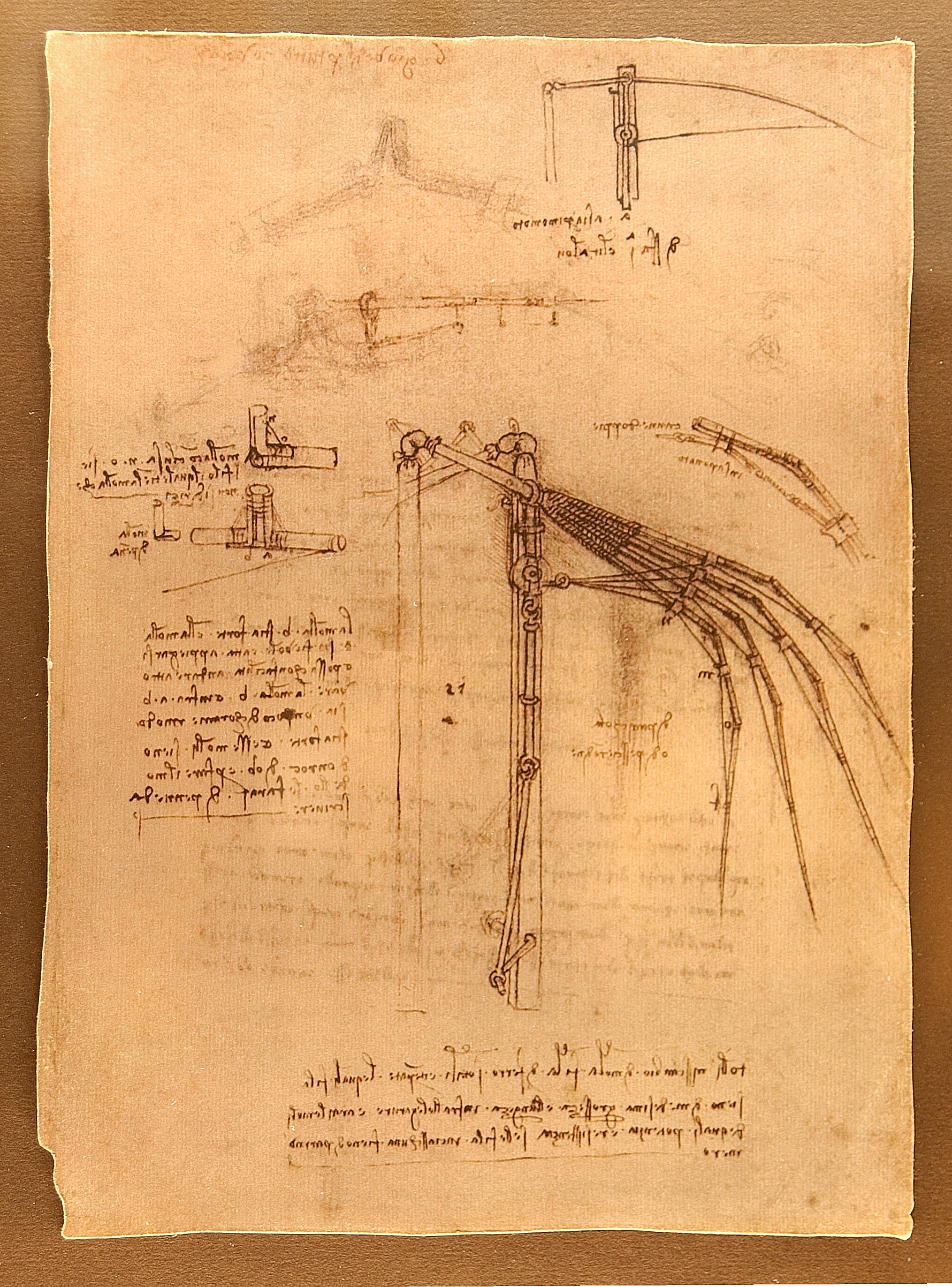 Design for a flying machine Codex Atlanticus f.844r is a drawing by Leonardo da Vinci.